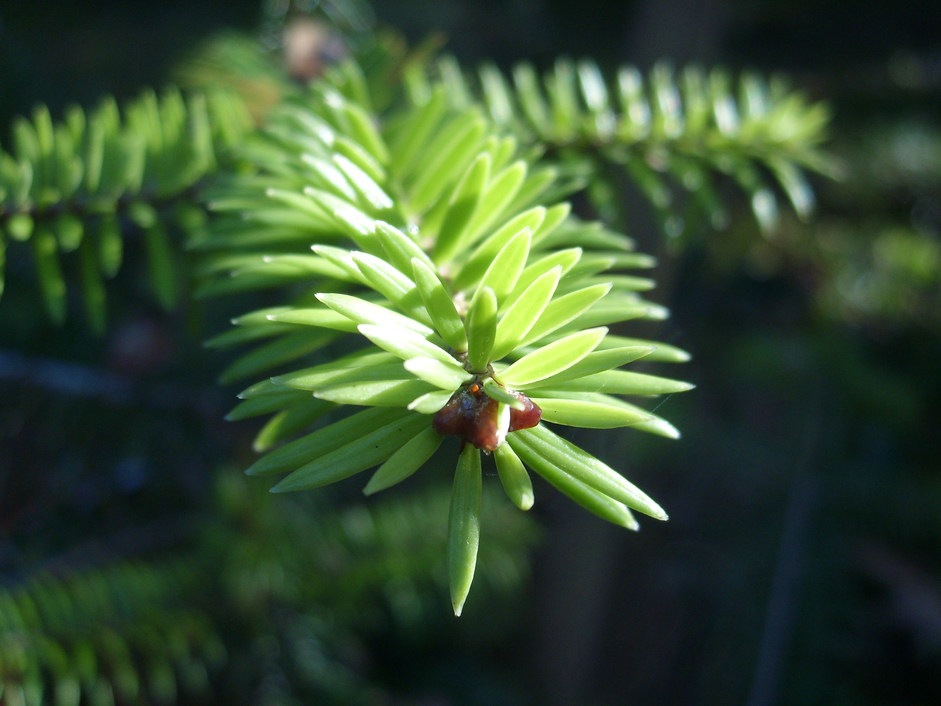 Buds and foliage of Abies recurvata var. ernestii (Syn.: Abies ernestii)